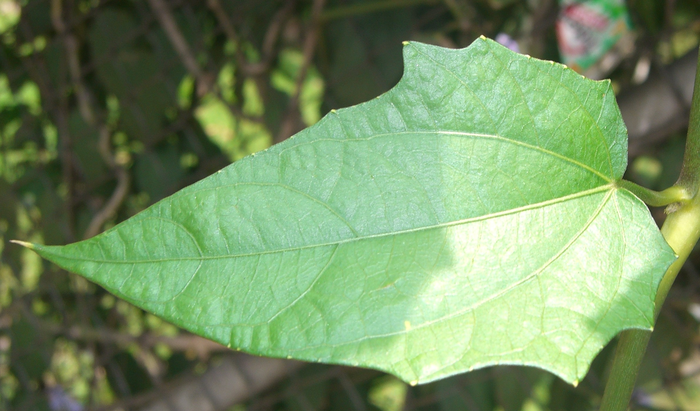 Please report references to .